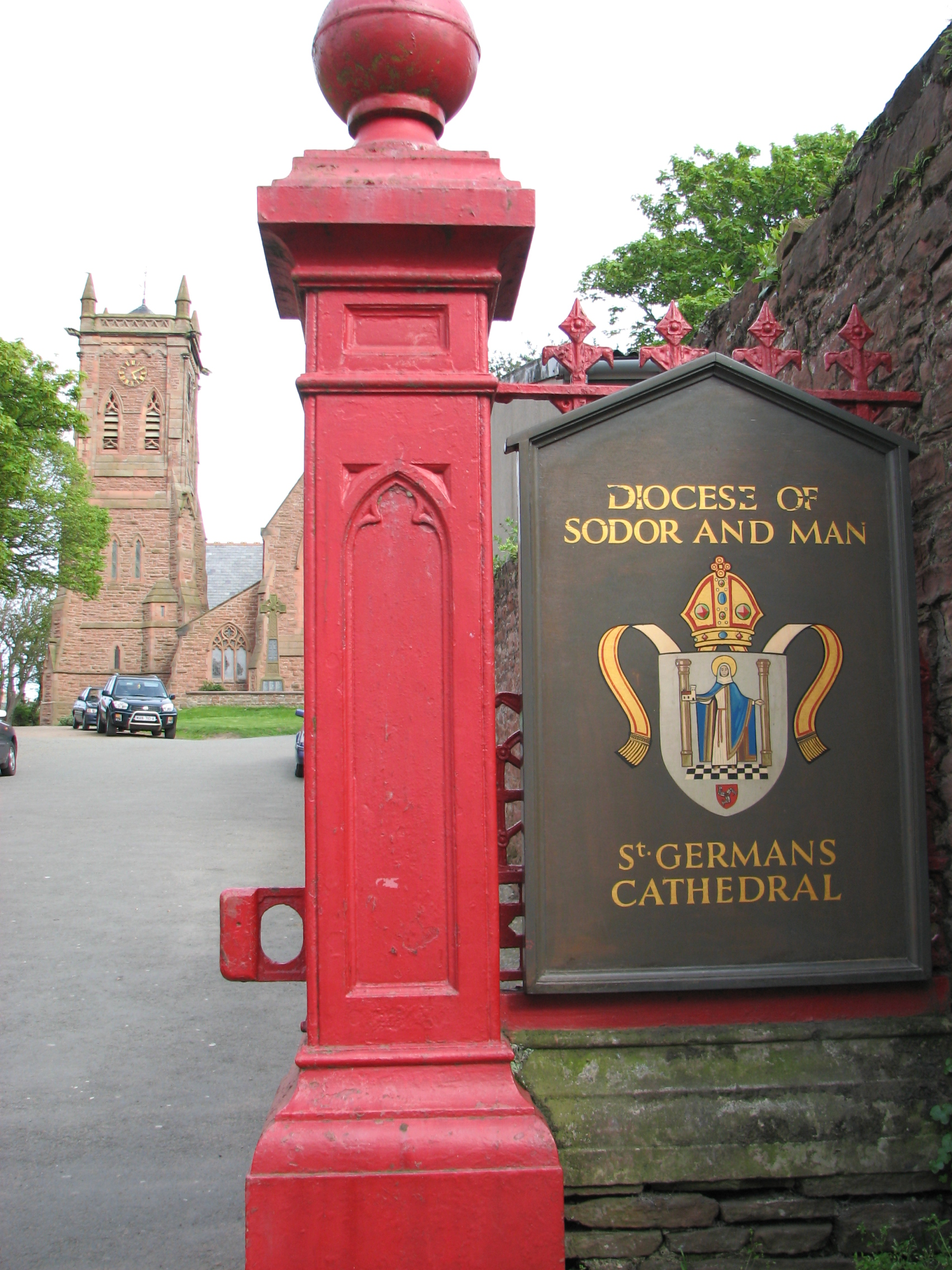 Sign outside Peel Cathedral, city of Peel, Isle of Man